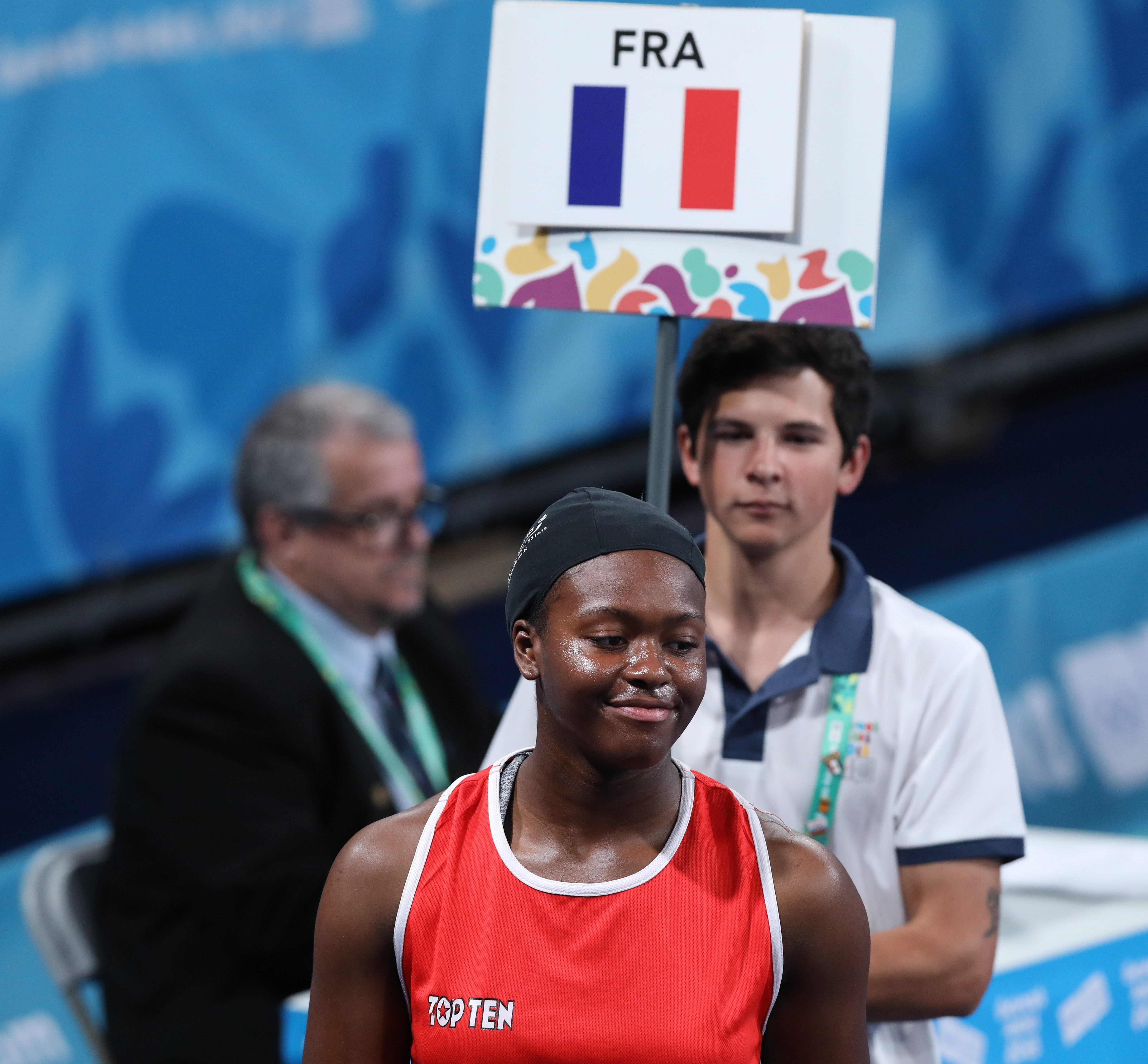 Gold Medal Bout of the girls' –75 kg (middleweight) at the 2018 Summer Youth Olympics in Buenos Aires on 17 October 2018: Russia vs. France.